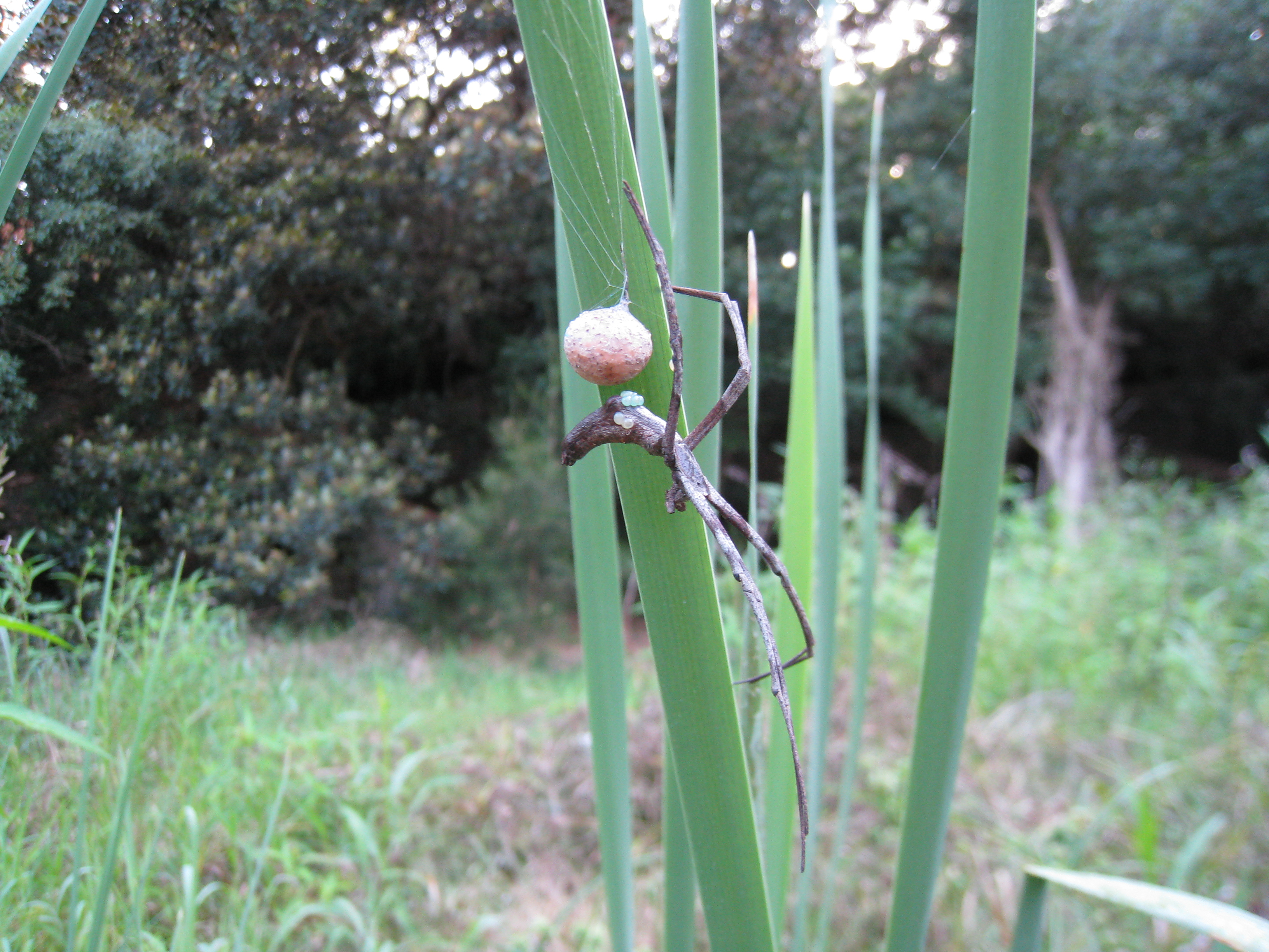 Net-casting spider, possibly Deinopis subrufa, though it isn't rufous and it is quite large. Paruna Reserve, Como NSW Australia, January 2010.